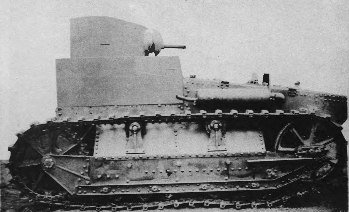 The original prototype of the Light Tank, T1, a U.S. Army light tank built in 1927. This photo shows the tank when it still had a wooden mockup turret and superstructure, which is why these items are smooth, without rivets. The true turret and superstructure were installed later. Note that the tank's body extends slightly in front of the tracks, a flaw corrected on later T1 versions.